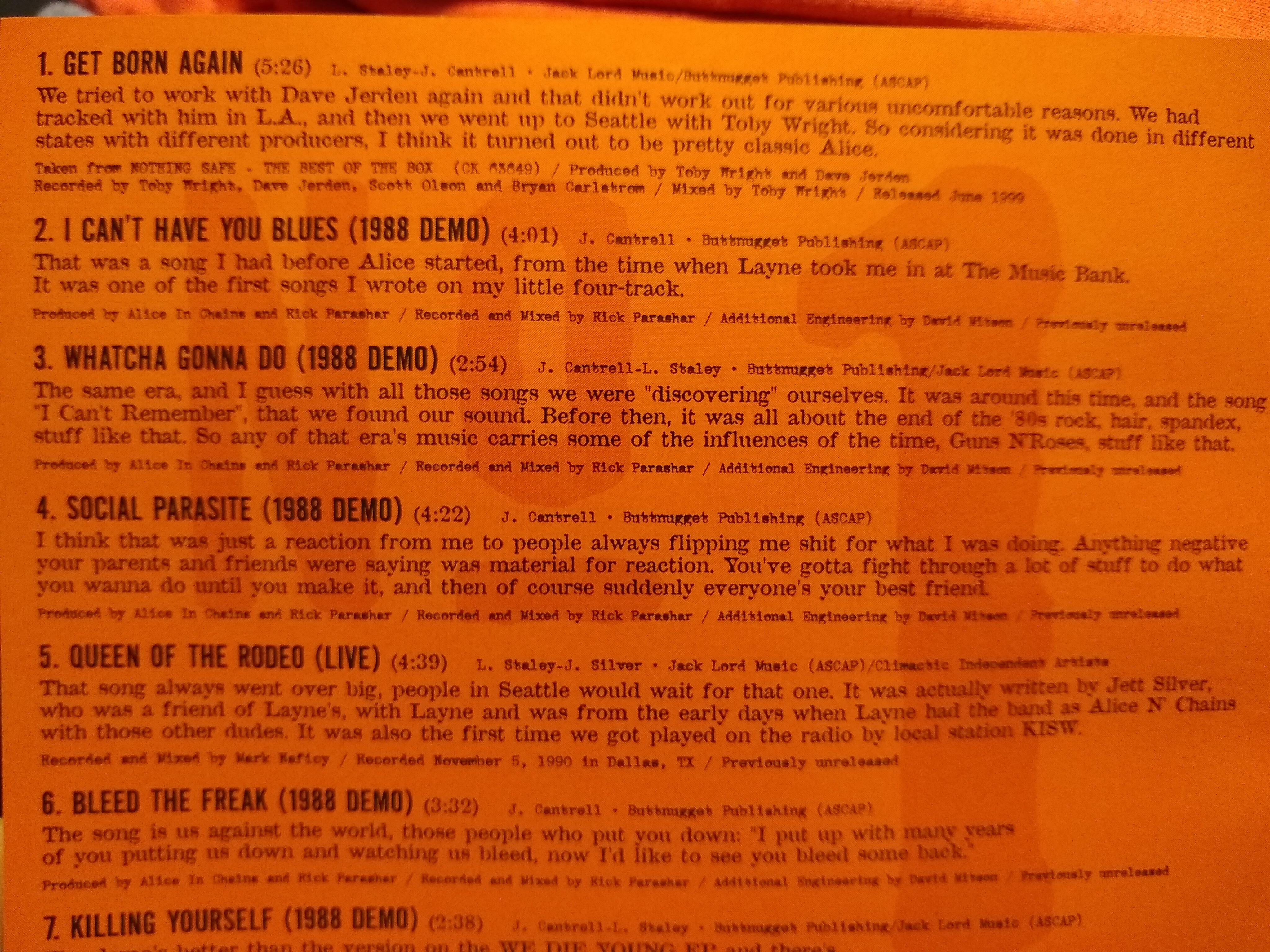 Alice in Chains - Music Bank. Liner notes